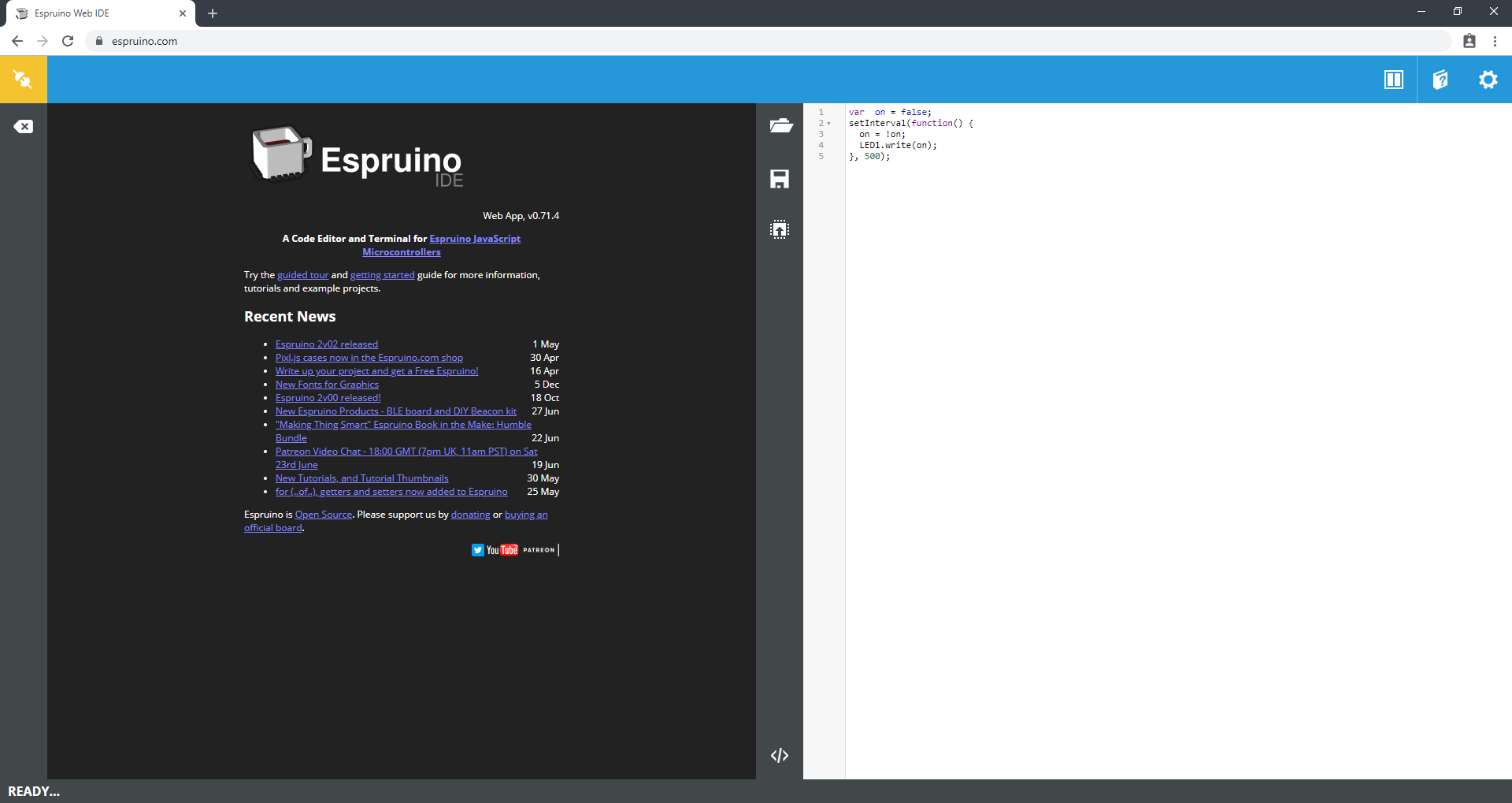 A screenshot of the web-based Espruino IDE